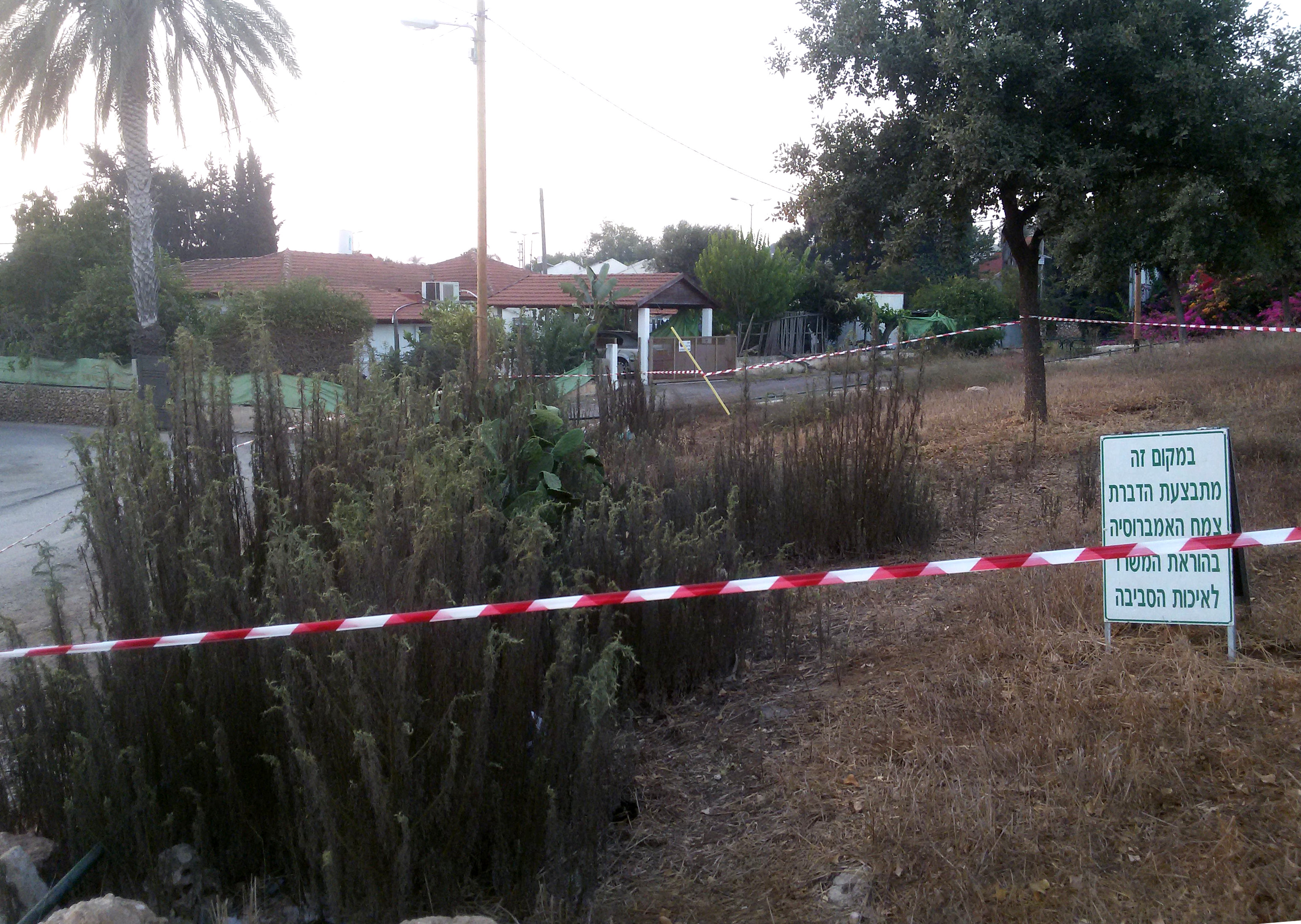 A closed-off area and a warning sign posted by the Kfar Saba, Israel, municipality after application of a herbicide on Ambrosia confertiflora. The sign reads, in Hebrew: "In this place eradication of the ambrosia plant is being performed per instructions by the Ministry of Environmental Protection